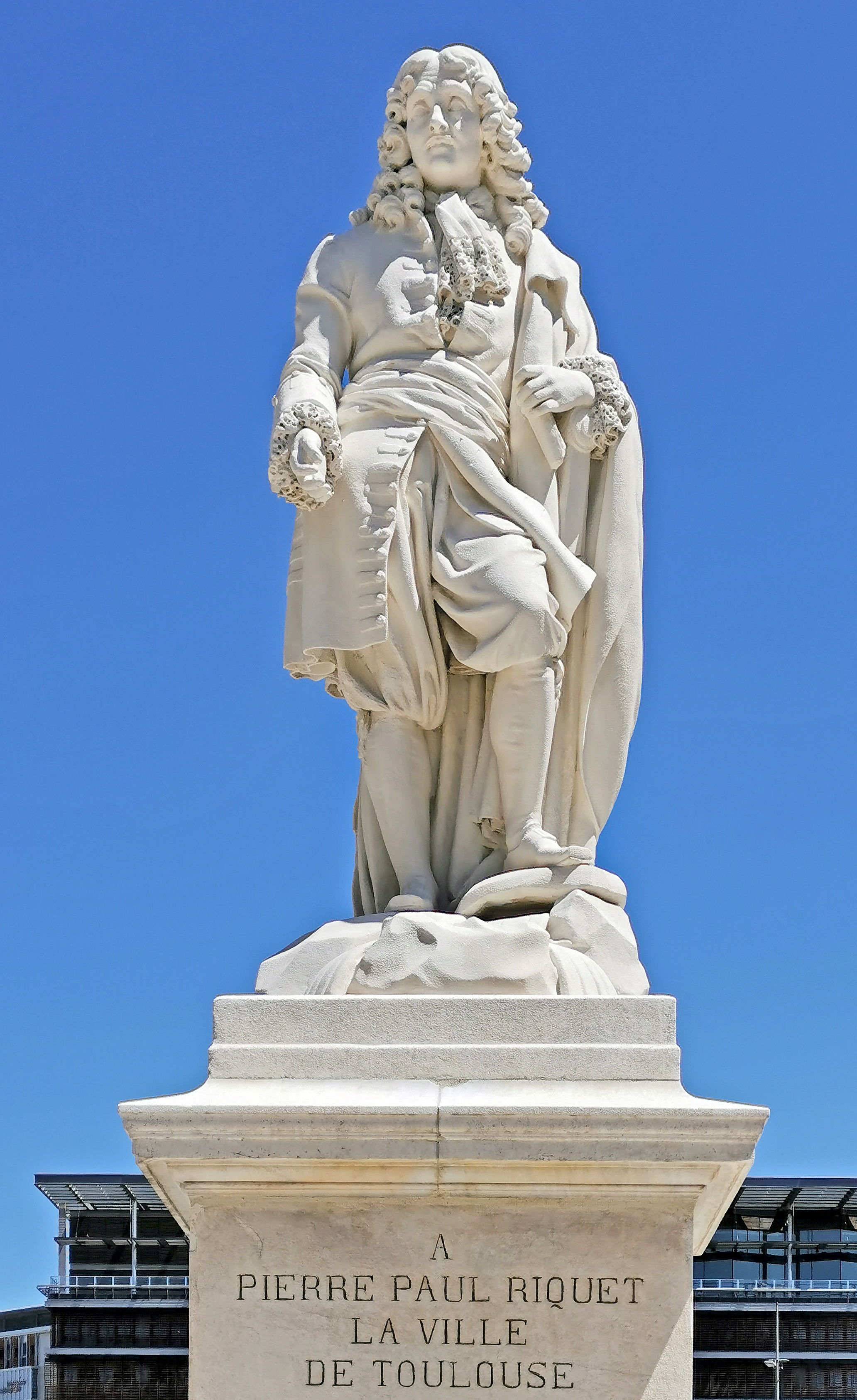 Statue of Pierre-Paul Riquet by Bernard Griffoul-Dorval at the top of the Allées Jean-Jaurès in Toulouse. The statue has been restored and moved to its new location since December 2019.